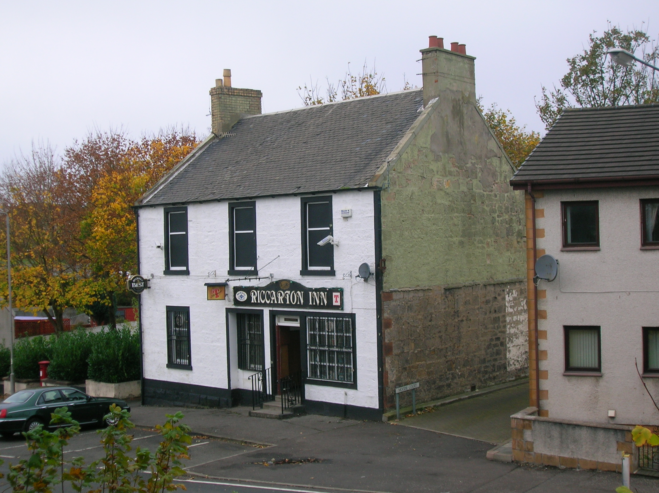 Riccarton Inn, Riccarton, East Ayrshire, Scotland.